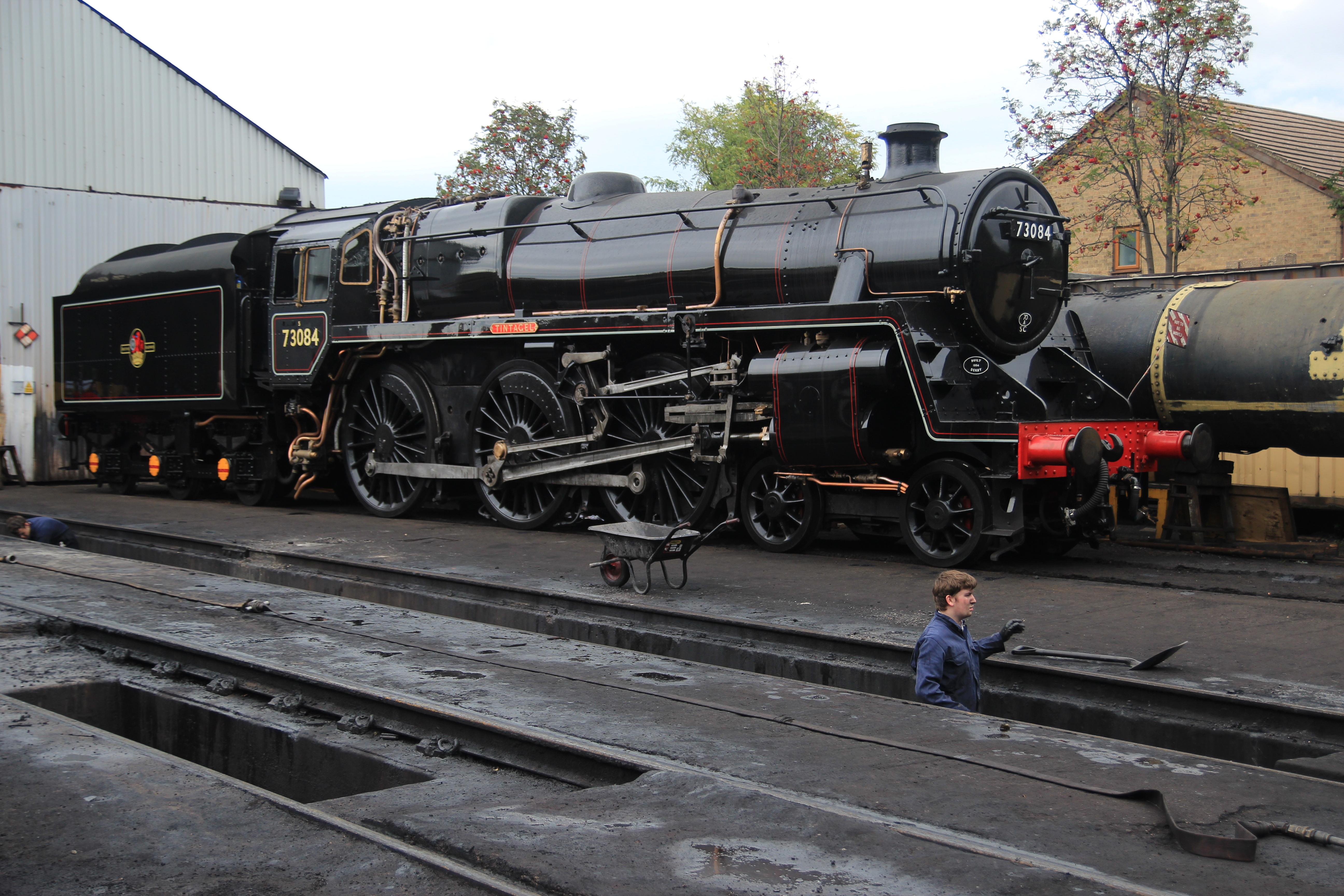 BR Standard Class 5MT 73156 "Tintagel" at the Great Central Railway Loughborough in October 2017, shortly after the completion of its restoration from Barry Scrapyard condition.